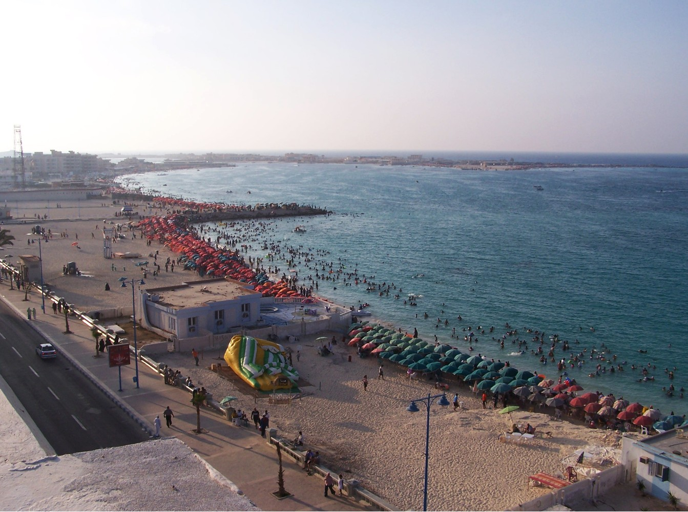 Marsa Matruh, Egypt. Umbrellas on Marsa Matruh Waterfront, Egypt.